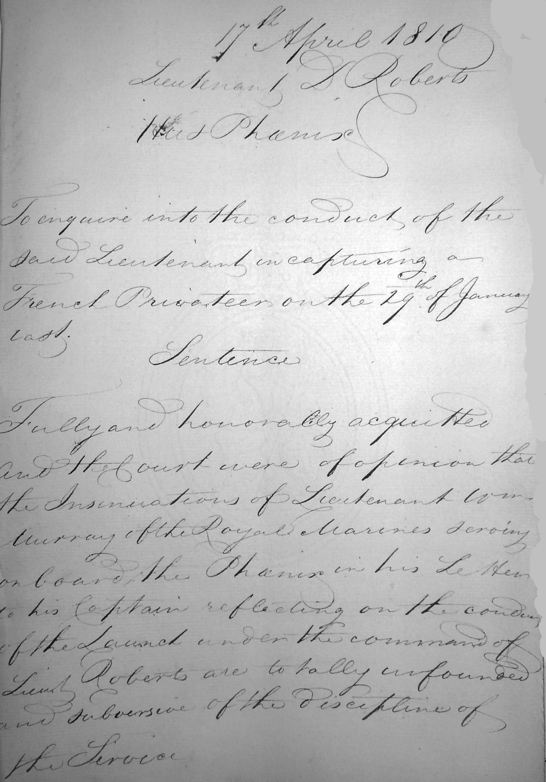 First page of Document